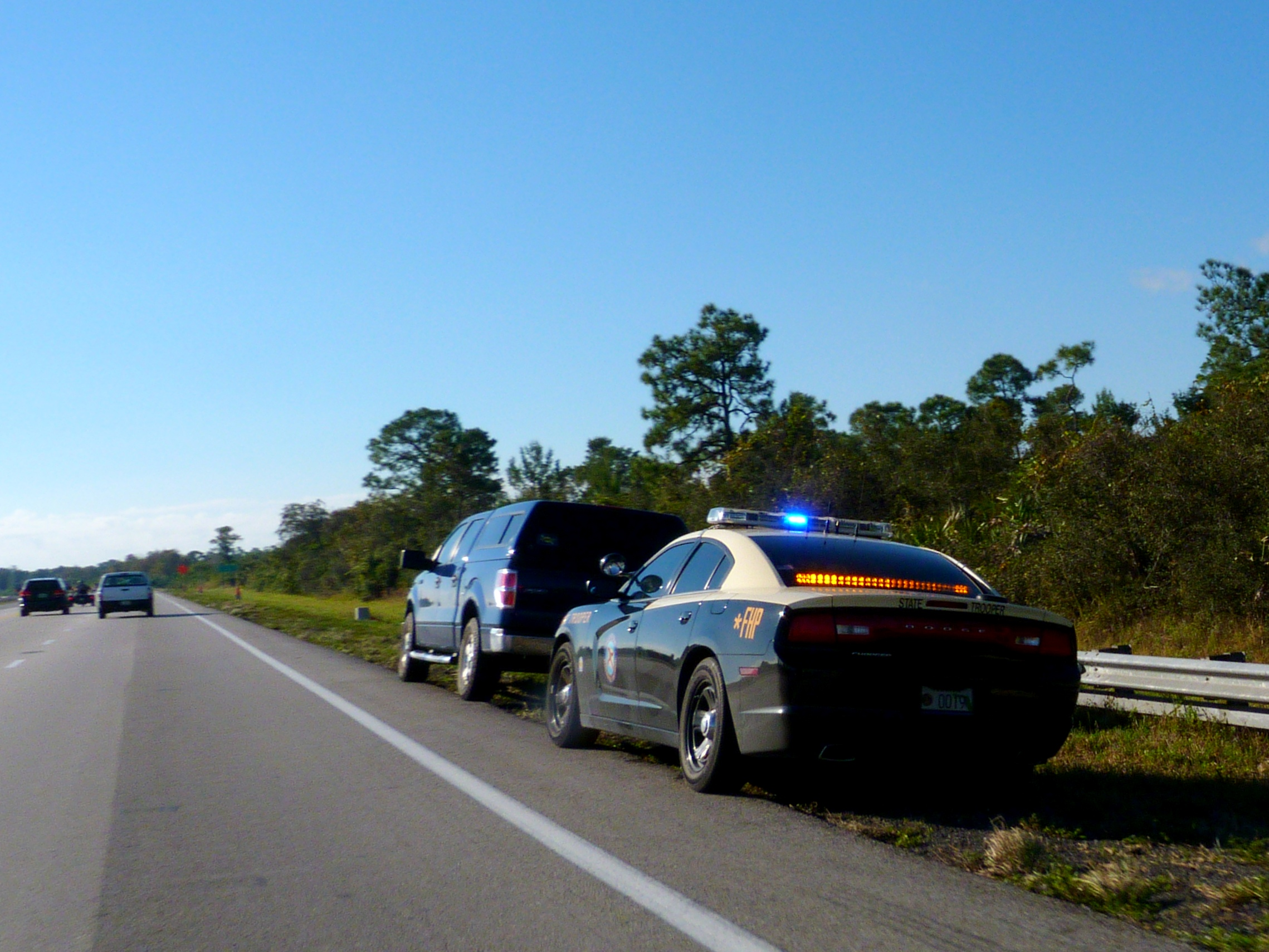 Florida Highway Patrol